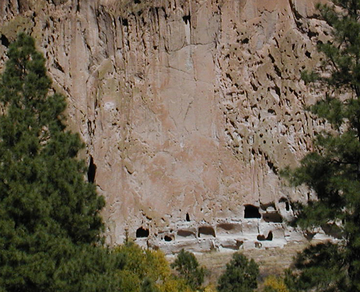 Long House Ruin in the Bandelier National Monument